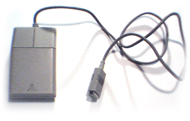 This picture was taken by me of my (father's) old Atari ST mouse.